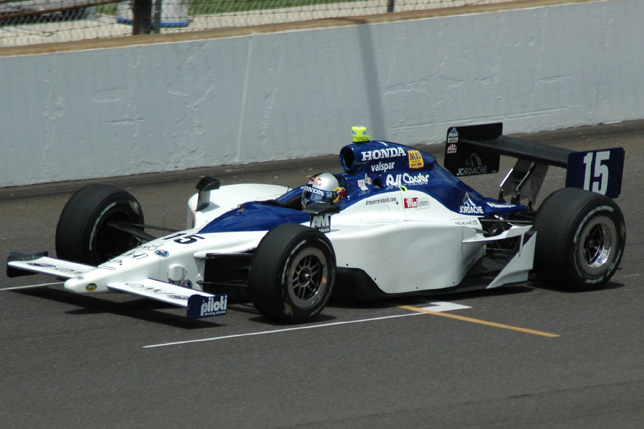 Buddy Rice practicing for the 2008 Indianapolis 500